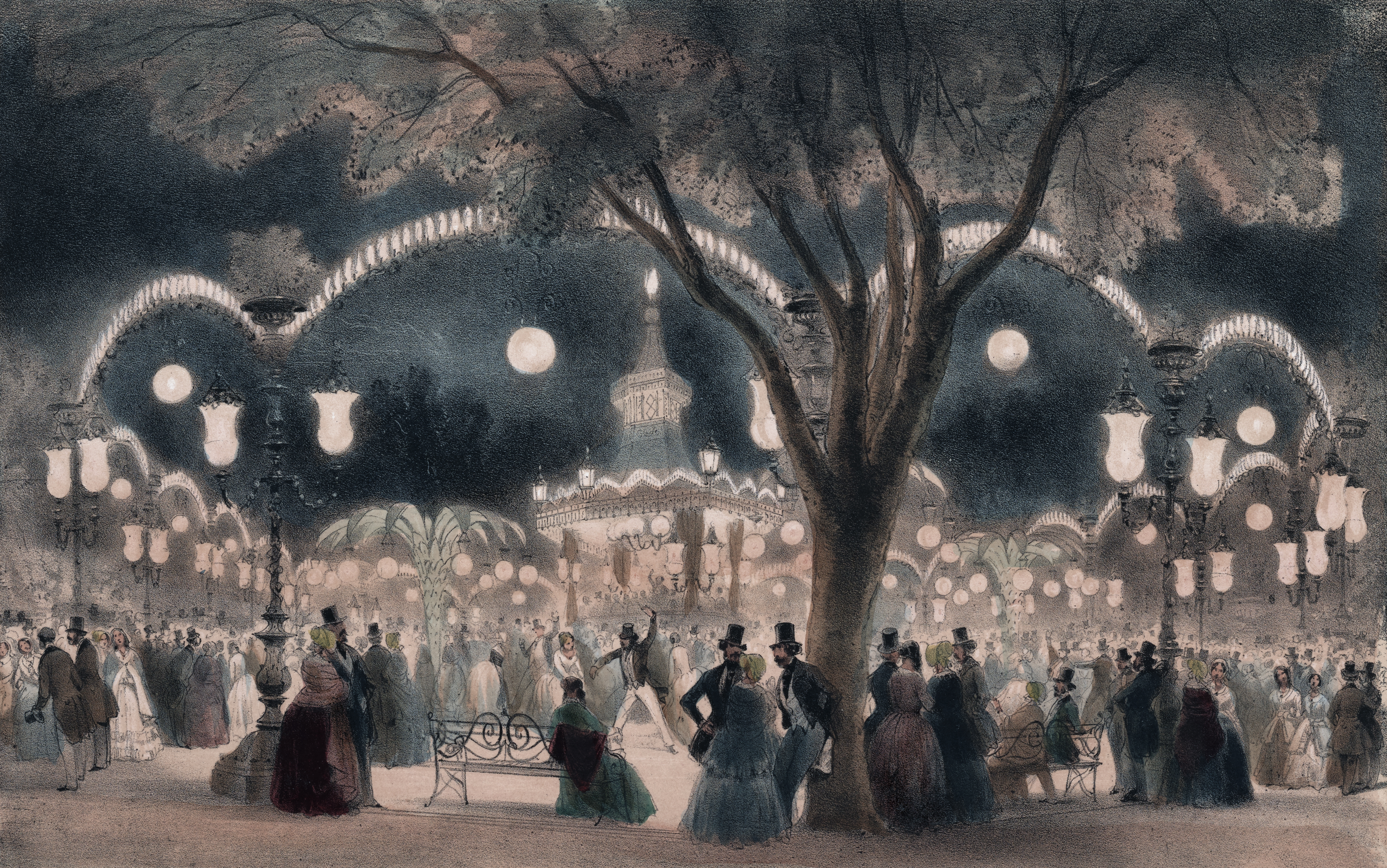 Large crowds milling about; a gazebo for the orchestra at center background.